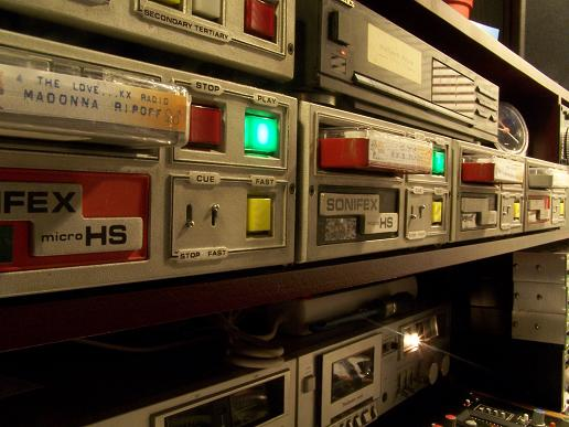 NAB-cartridges in Sonifex HS cartplayers